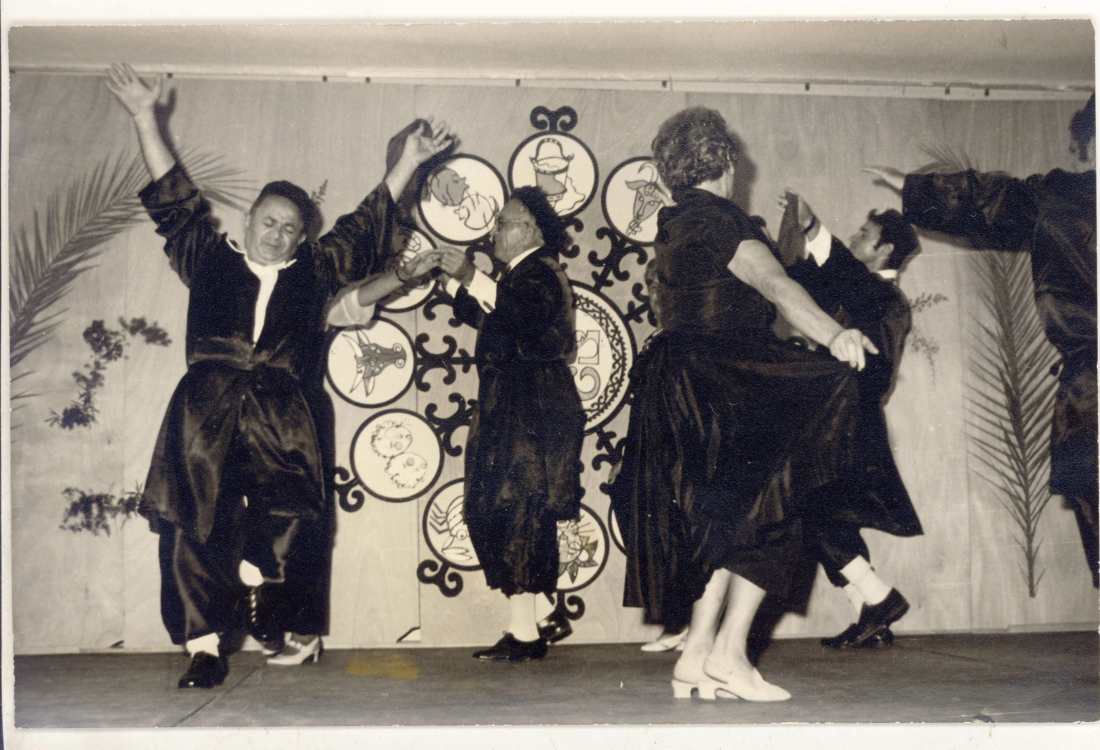 Dancing the Sherale (Sher Dance) in Kibbutz Eilon, 1971 The bridegroom's parents and other kibbutz members dressed up in East European costumes.